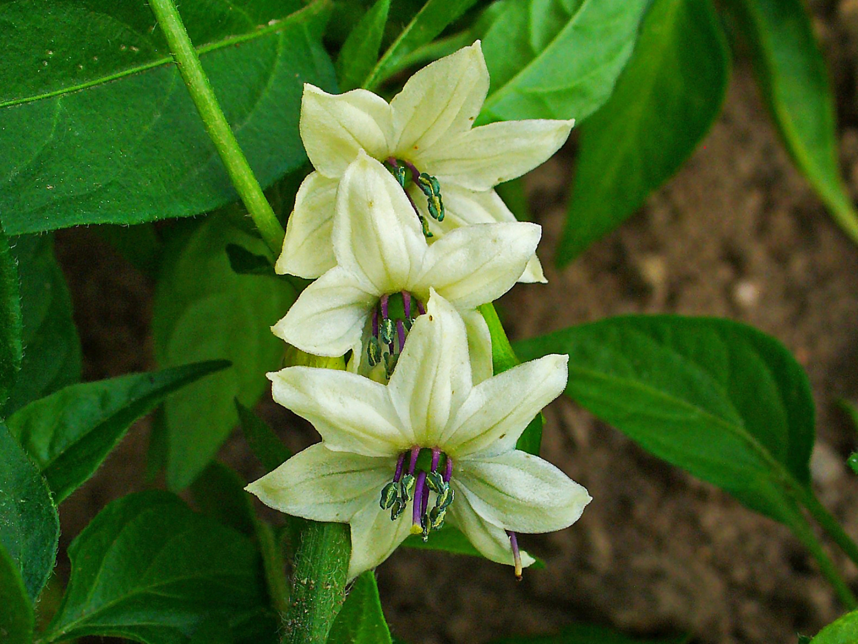 Capsicum frutescens ’Hidalgo’, Solanaceae, Cone Pepper, Tabasco, flowers; Botanical Garden KIT, Karlsruhe, Germany.